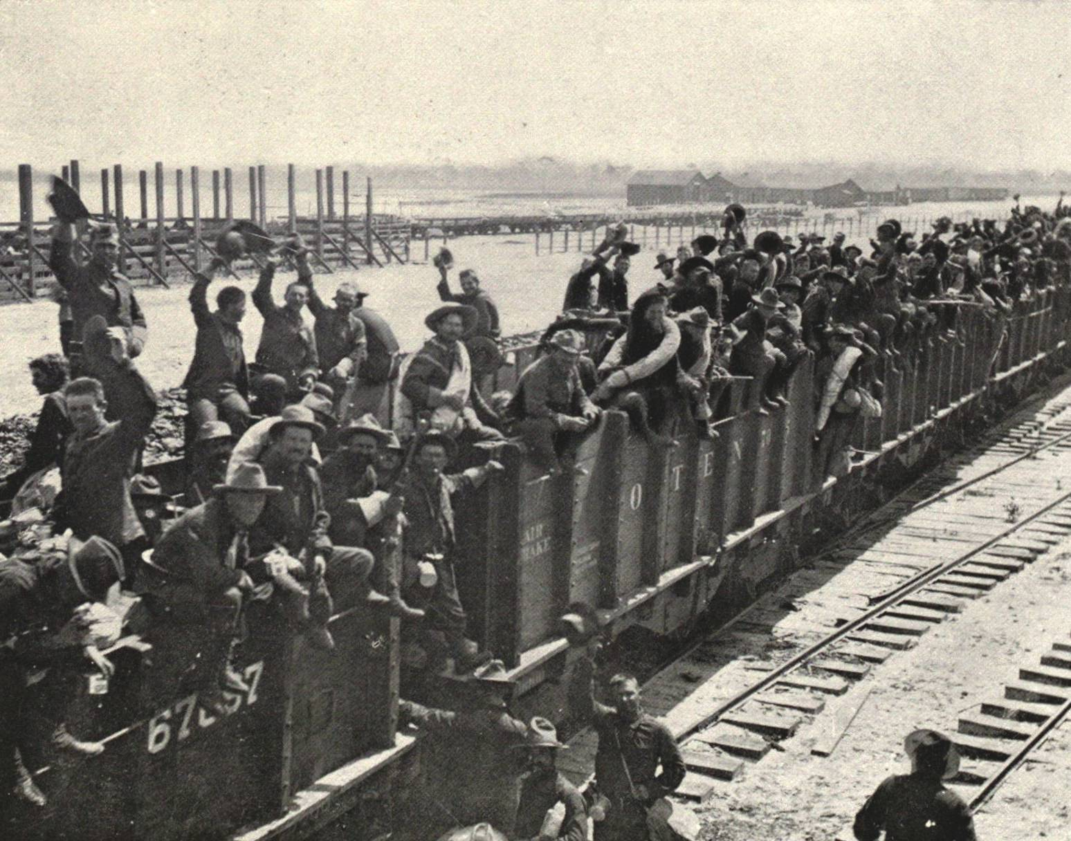 How the Rough Riders rode roughly to Port Tampa. From p. 314 of Harper's Pictorial History of the War with Spain, Vol. II, published by Harper and Brothers in 1899.